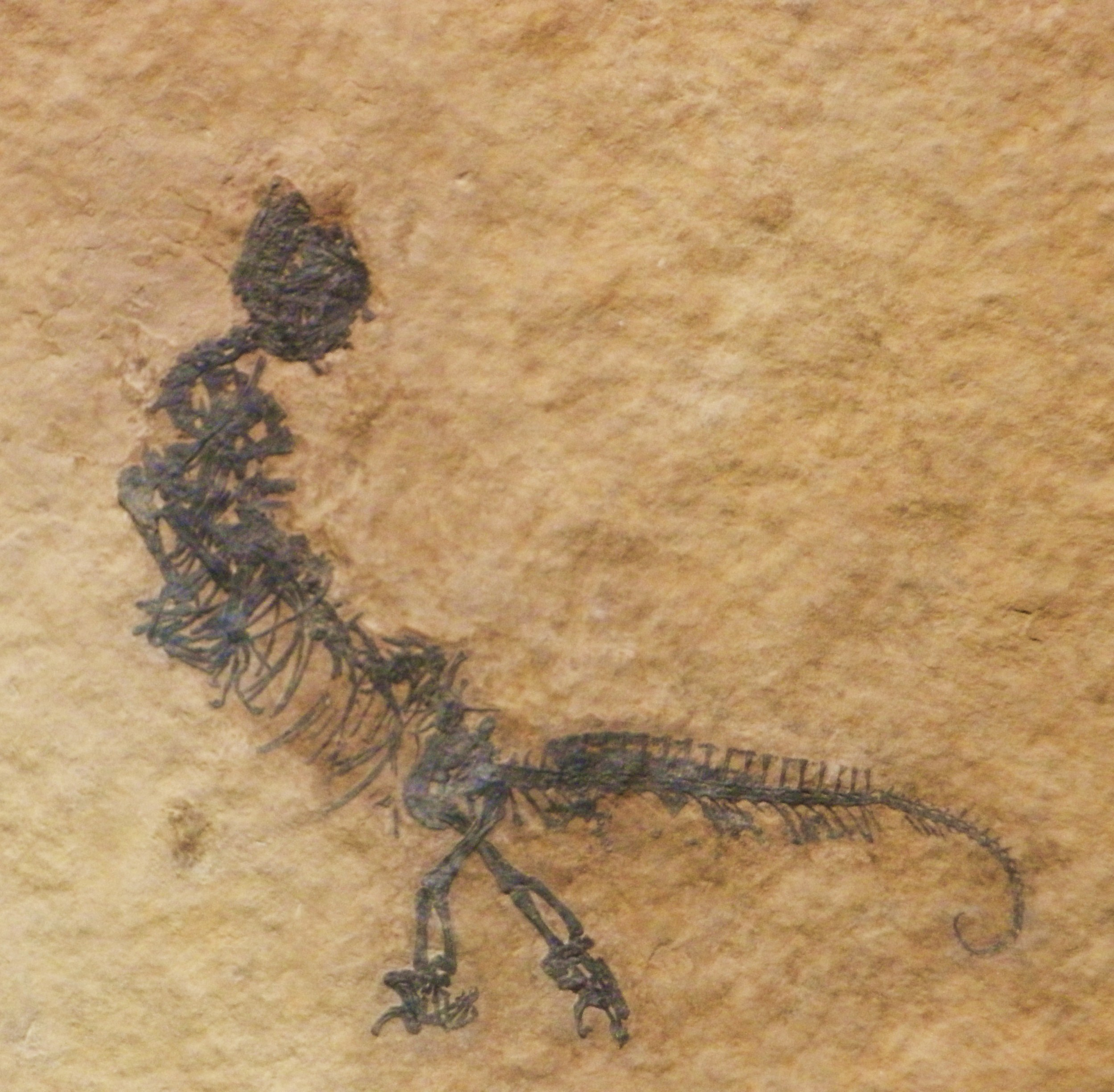 Took the photo at Museo di Storia Naturale di Verona